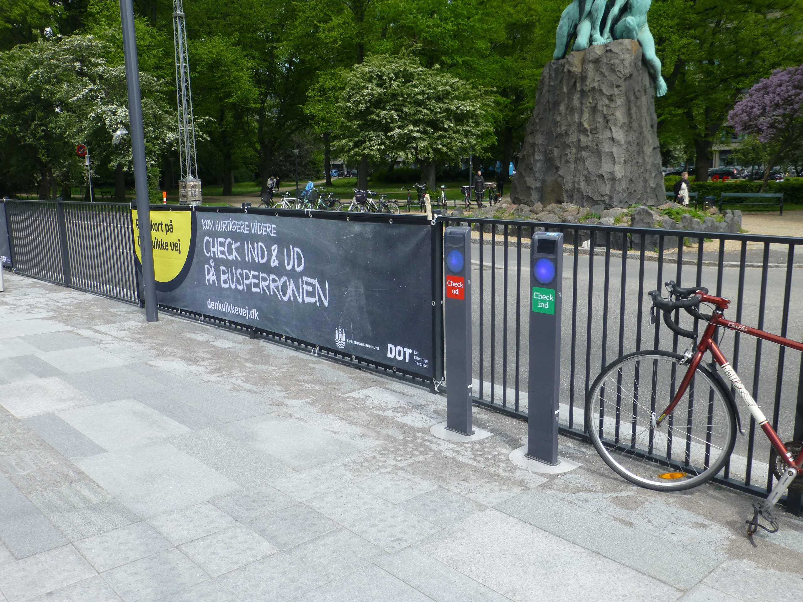 Den kvikke vej (the quick way), a bus rapid transit between Fredensbro and Lyngbyvej in Østerbro in Copenhagen. Test with check in and check out for Rejsekort (travel card) at the bus stop Rigshospitalet Syd.